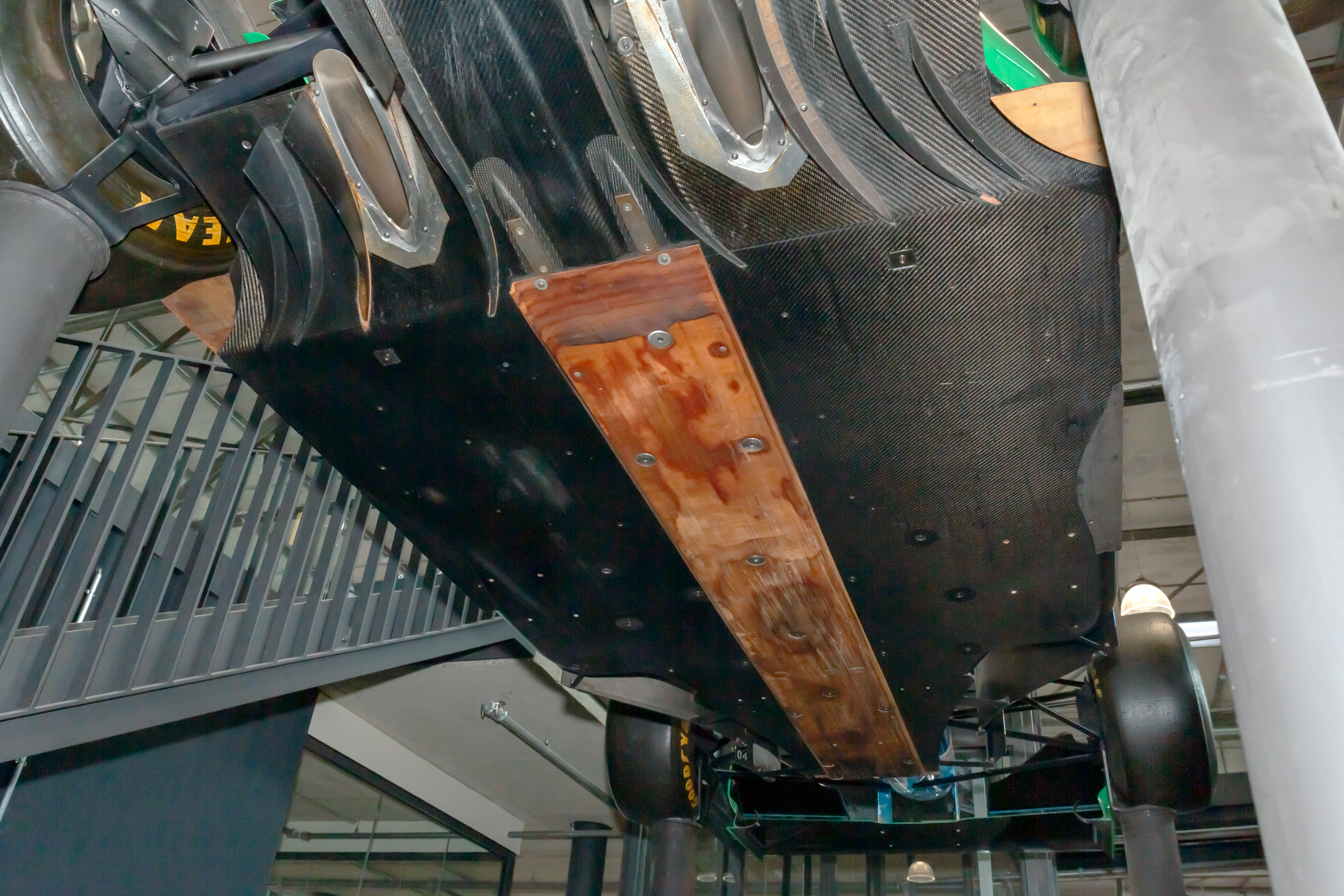 Michael Schumacher Private Collection: Benetton B194 (chassis 06) of Michael Schumacher